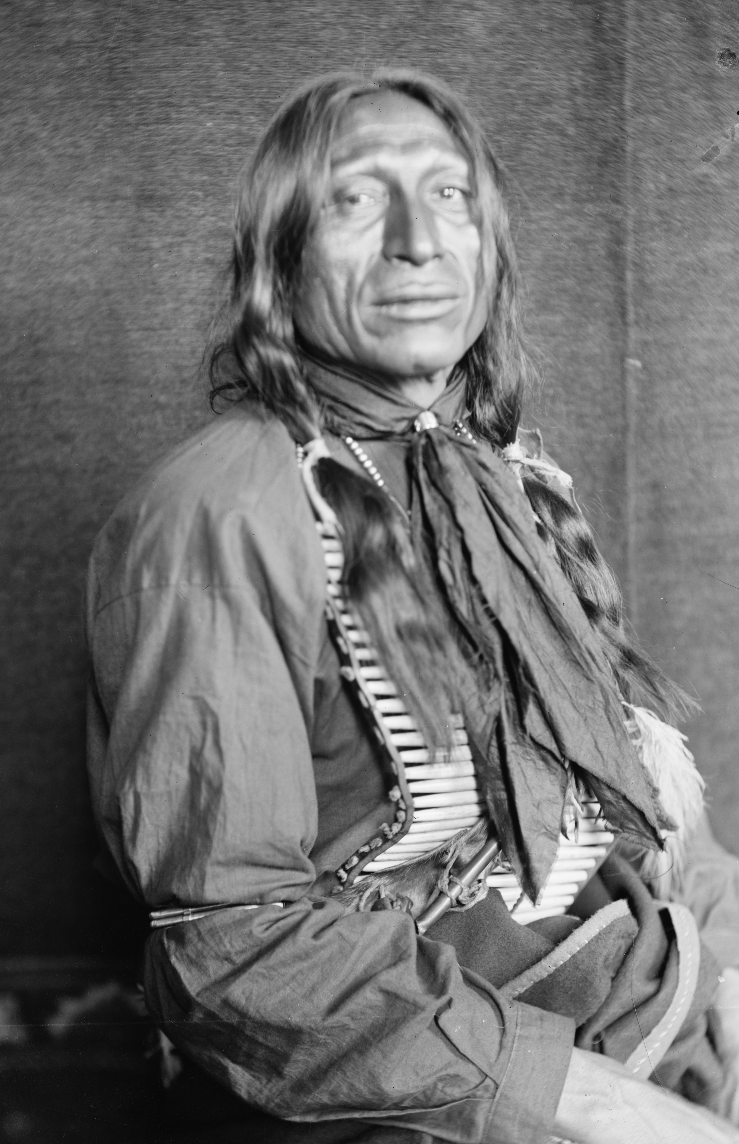 Chief Iron Tail, a Souix Indian and member of Buffalo Bill's Wild West Show